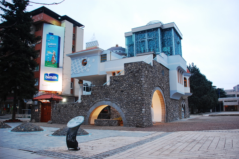 The house of Mother Teresa in her home town Skopje, Macedonia